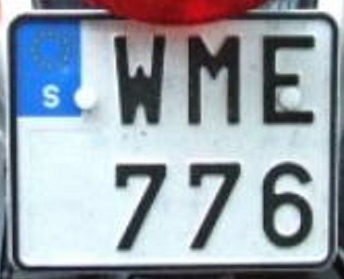 Registration plate of Sweden-EU